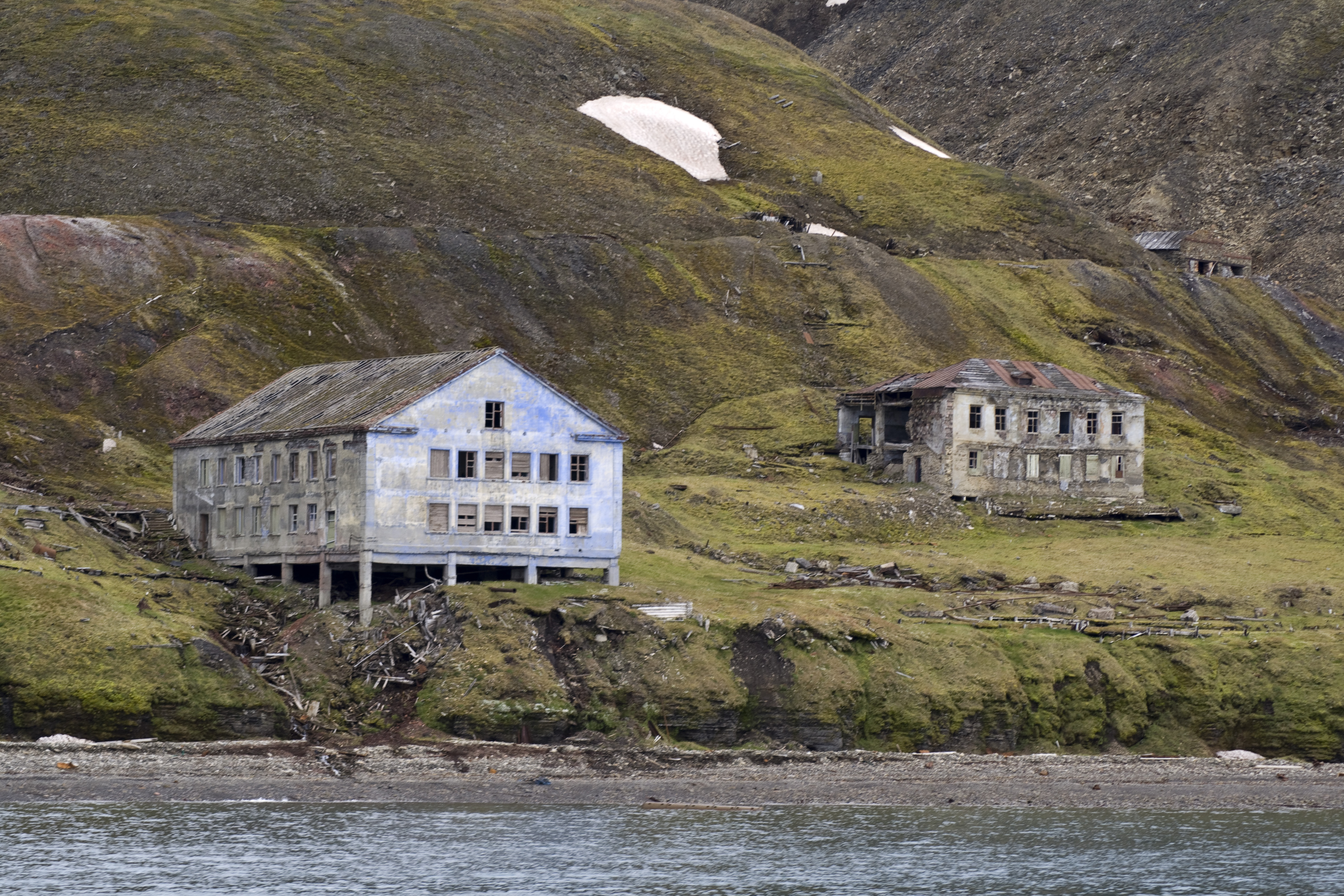 abandoned russian settlement of Grumant, Svalbard